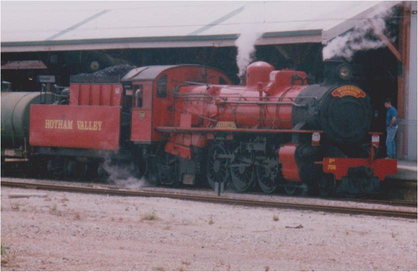 Western Australian Government Railways steam locomotive Pm706 at Fremantle.Corporal29 (talk) 06:55, 3 September 2011 (UTC)